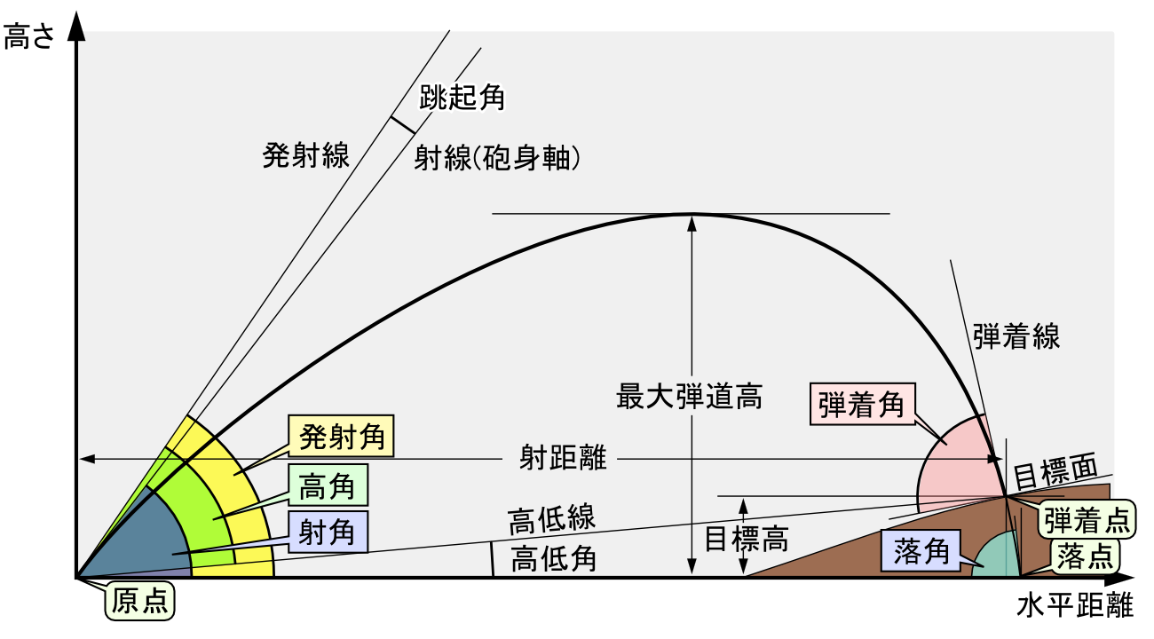 Ballistics chart